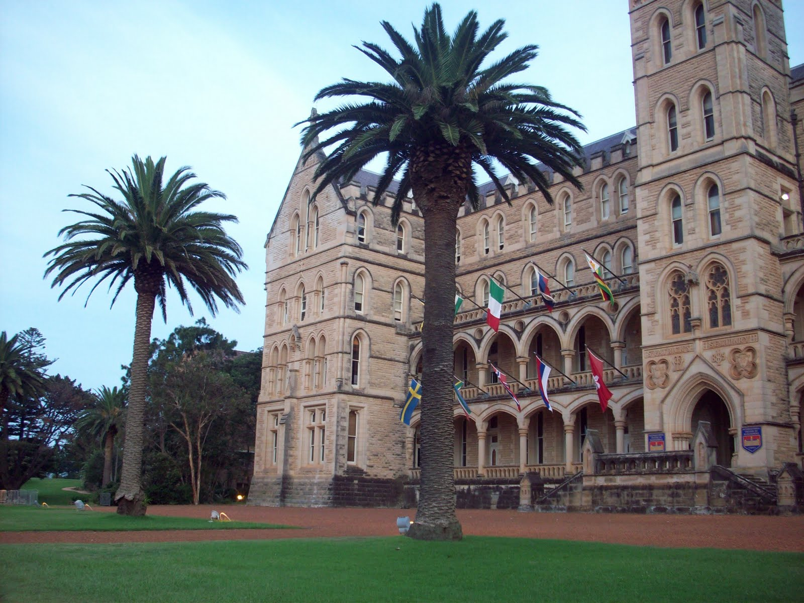 Picture of the ICMS campus building.